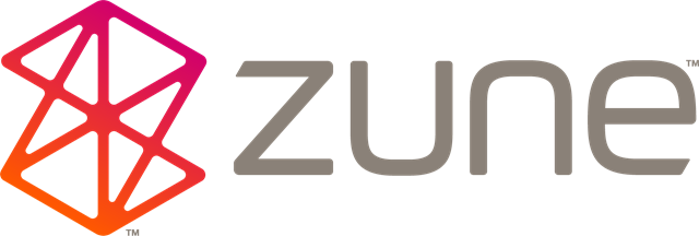 Microsoft Zune logo